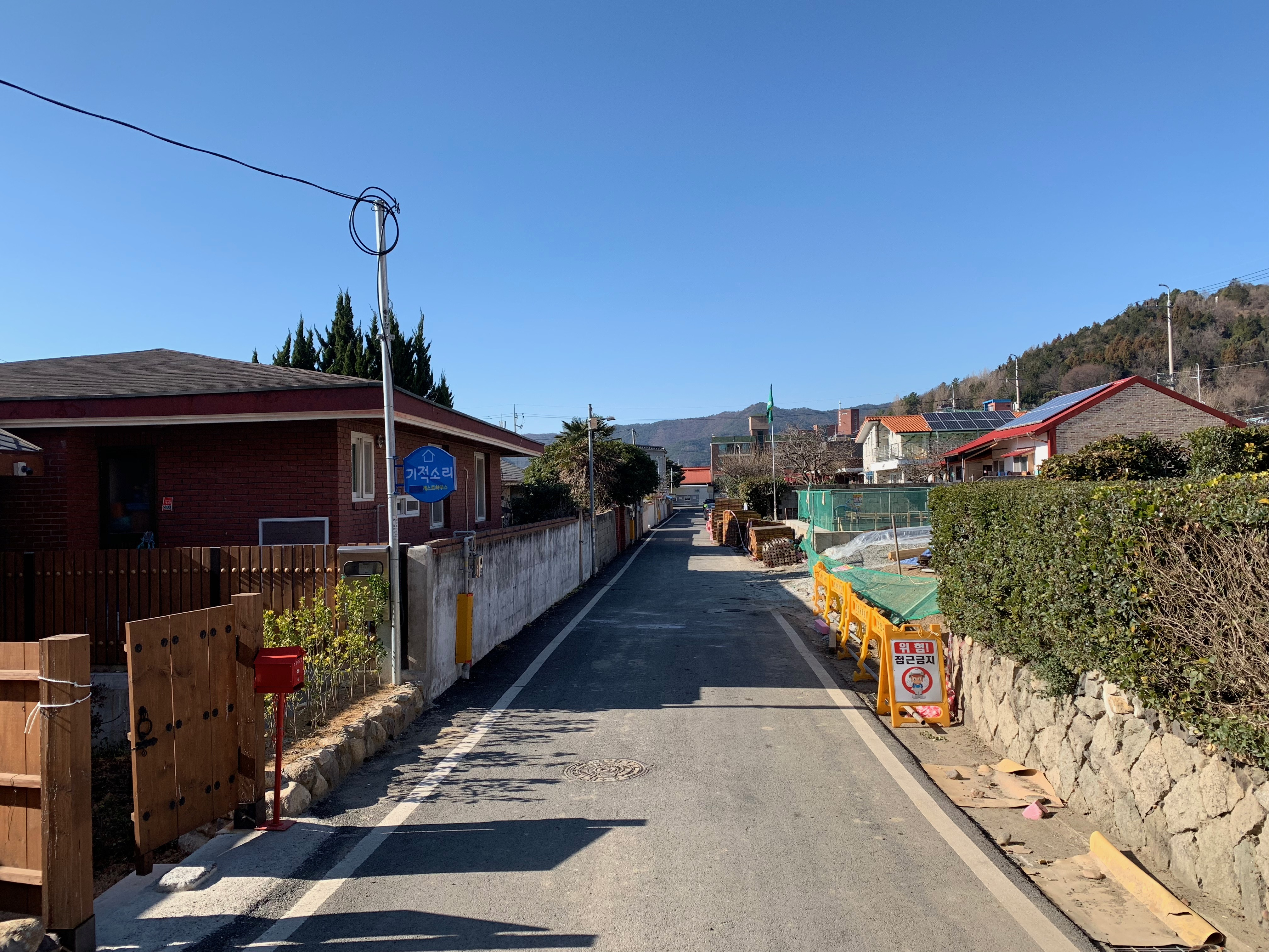 Suncheon Rail Culture Village